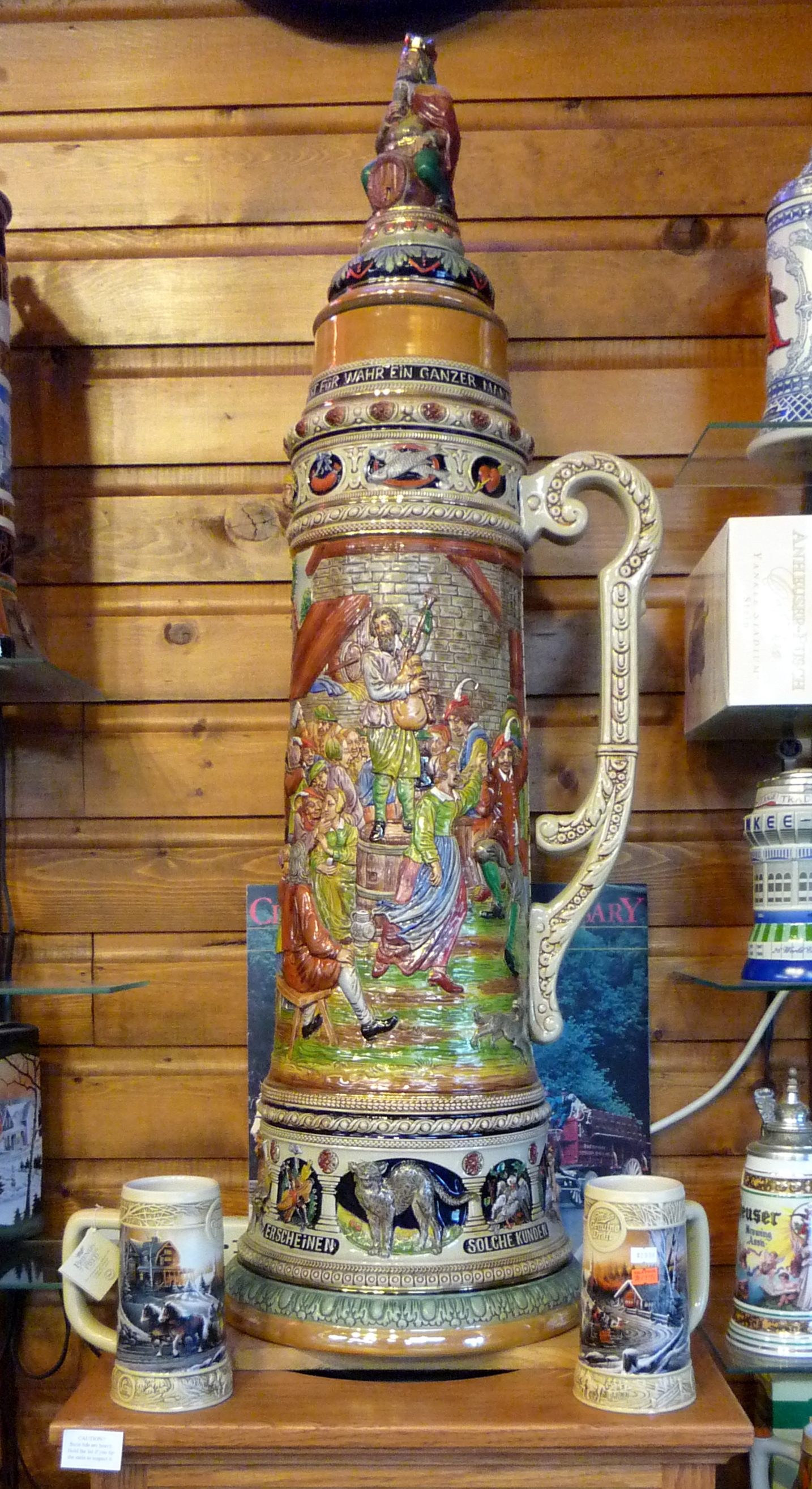 Gigantic beer stein. According to its display, it was made in Germany, weighs 35 lbs empty, holds 8.45 gallons of beer, features the scene of a Flemish country wedding on the stein, and Gambrinus on the lid; it includes a German phrase translating to "He who can empty this stein is truly a man". Located at the Pine Cheese Mart and Von Klopp Brew Shop, Pine Island, Minnesota, USA.